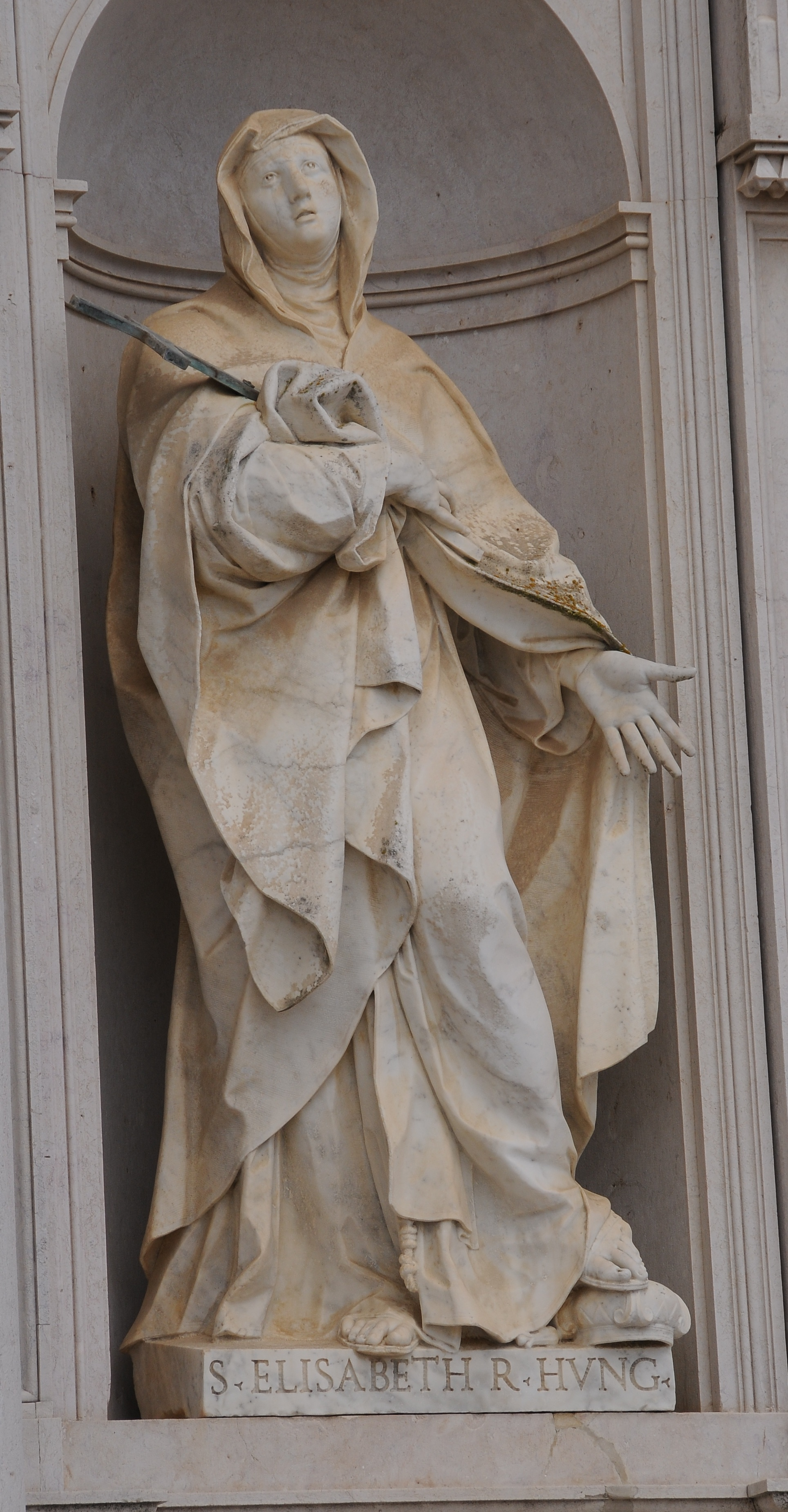 Statue of Saint Elisabeth Hungria in the Church of Mafra National Palace, Mafra, Portugal.